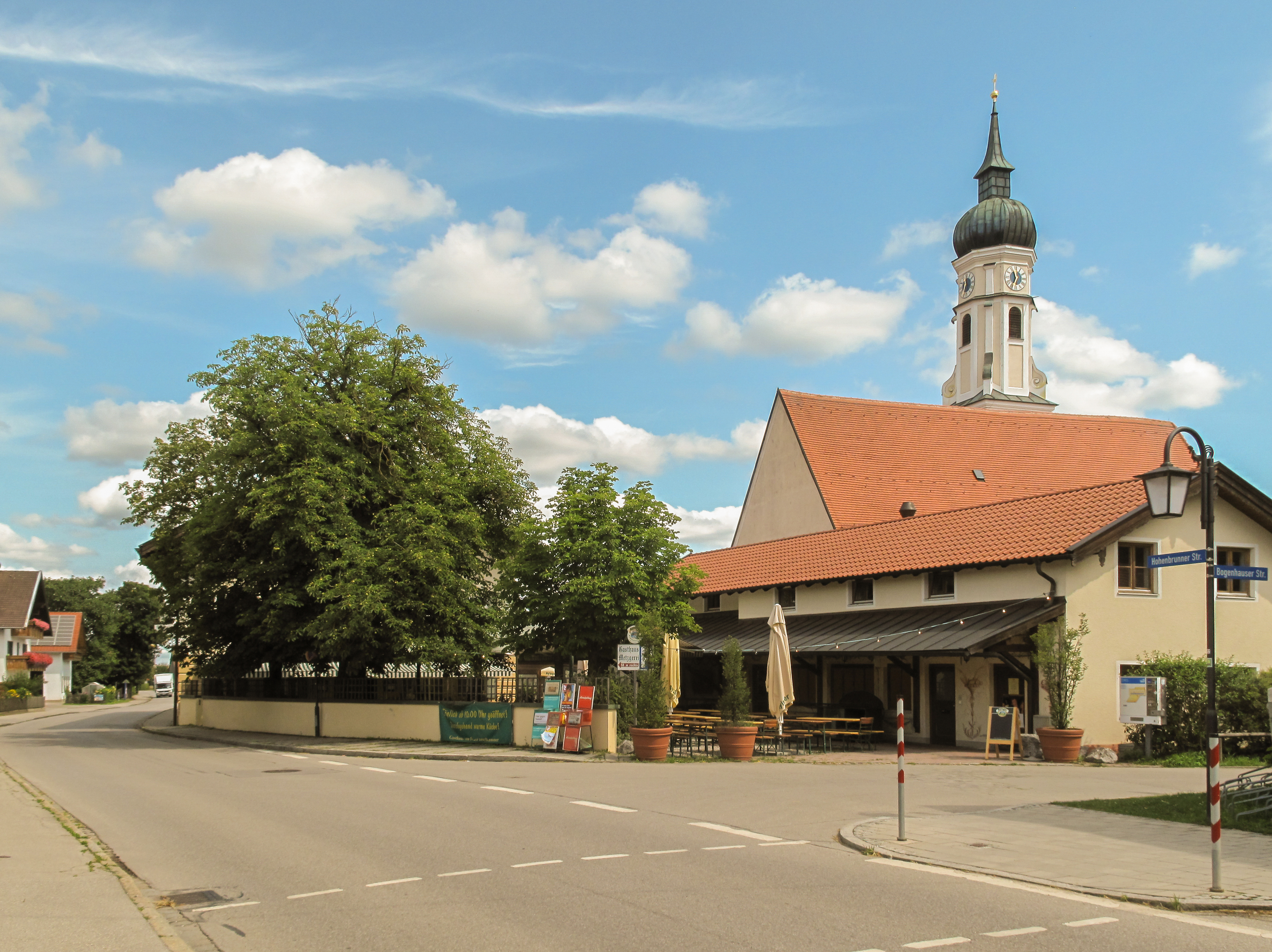 Siegertsbrunn, churchtower in the street